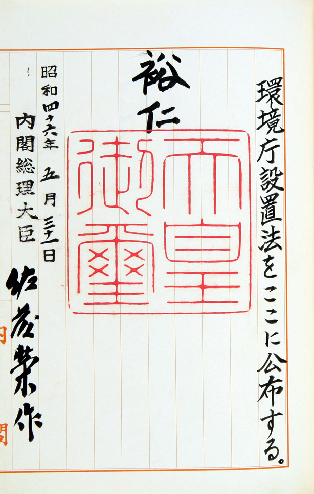 Emperor Hirohito promulgated the Act for Establishment of the Environment Agency (Act No.88 of 1971) on May 31, 1971.